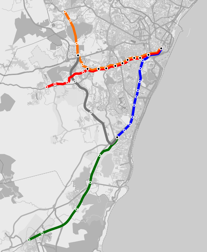 Map of the Recife Metro network (including diesel commuter rail line).